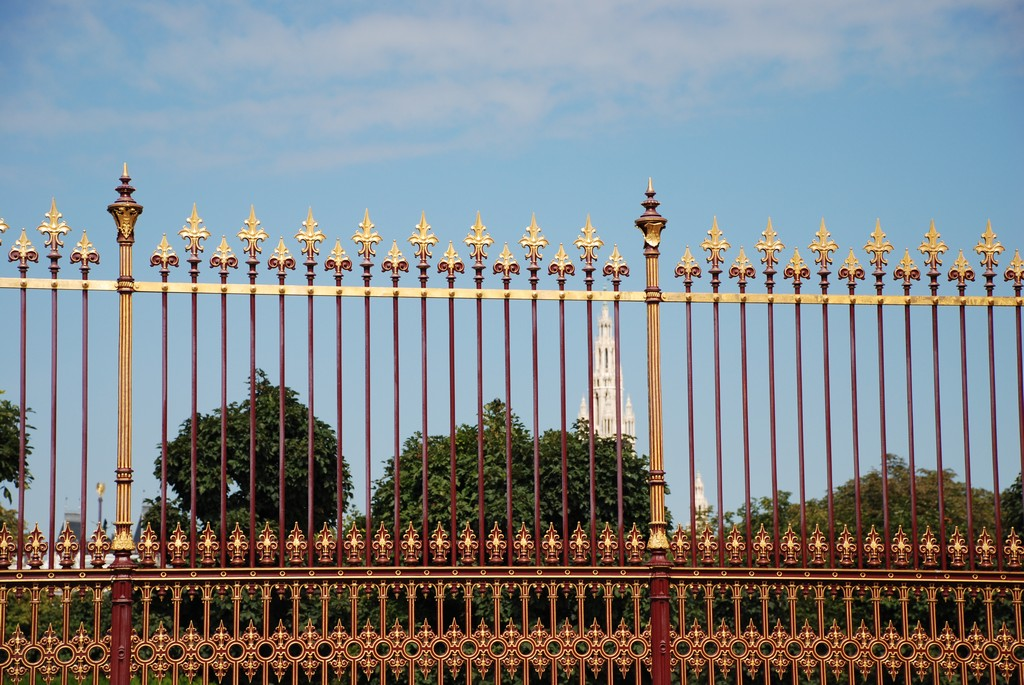 Restored cast iron fence of the Hofburg in Vienna.